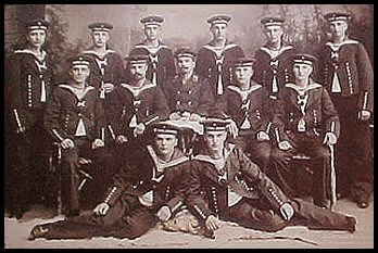 Walther Schwieger (U 20), Gruppenfoto seiner Torpedolehrdivision, 1906. Fahnrich zur See Schwieger bottom right. "Fahnrich zur See" was a rank in the Kaiserliche Marine roughly equivalent to that of a Midshipman in the Royal Navy. For more information, visit